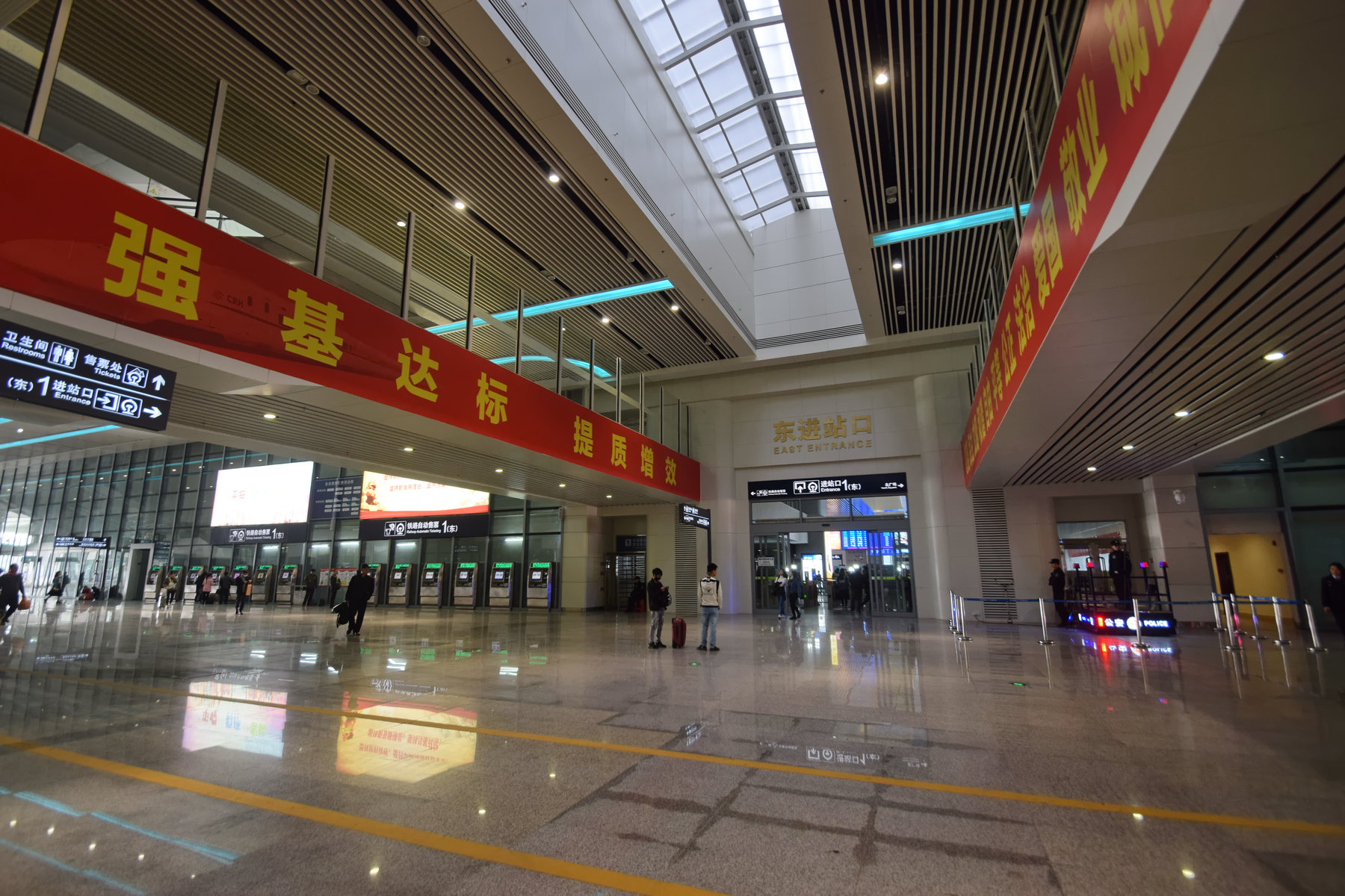 East Entrance of Foshan Xi (West) Railway Station